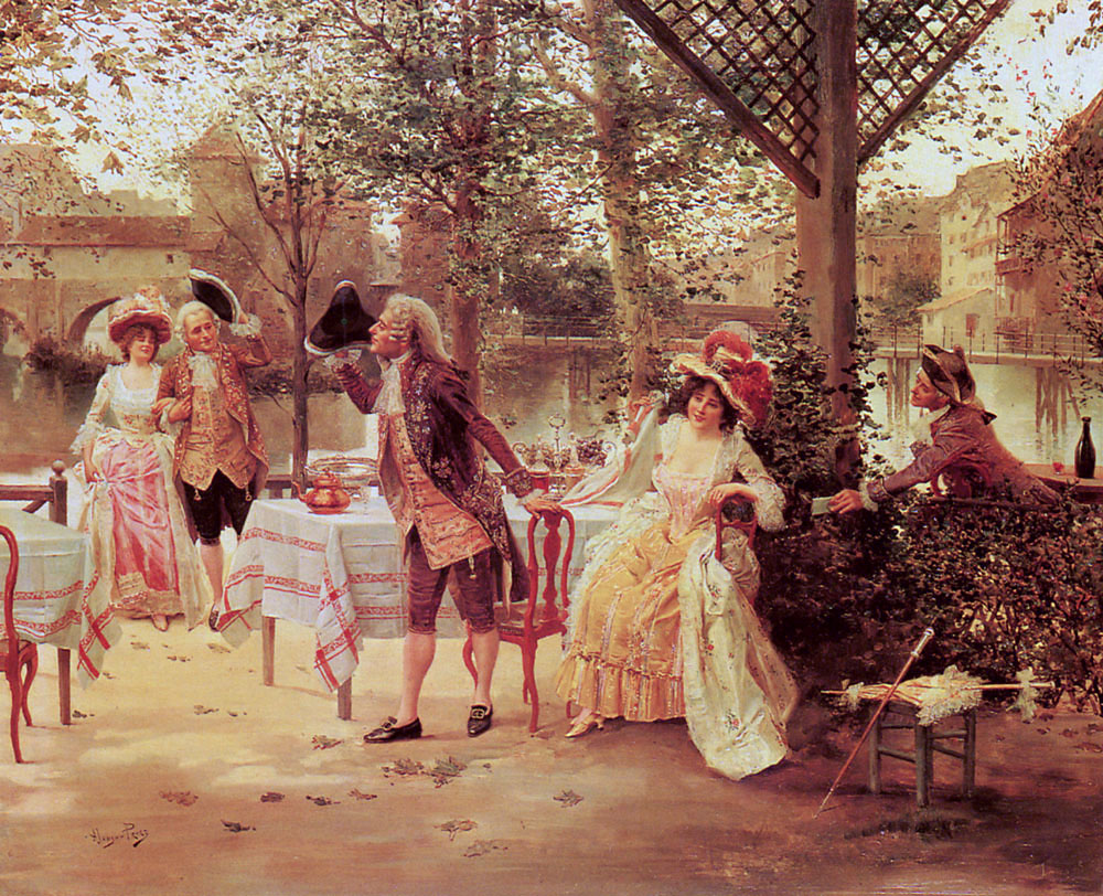 "A Cafe by the River" by Alonso Pérez. Victorian genre painting of an 18th century scene, ca. 1780s. Note the gentleman on the far right, who is slipping a clandestine letter (probable billet-doux) to the seated woman.